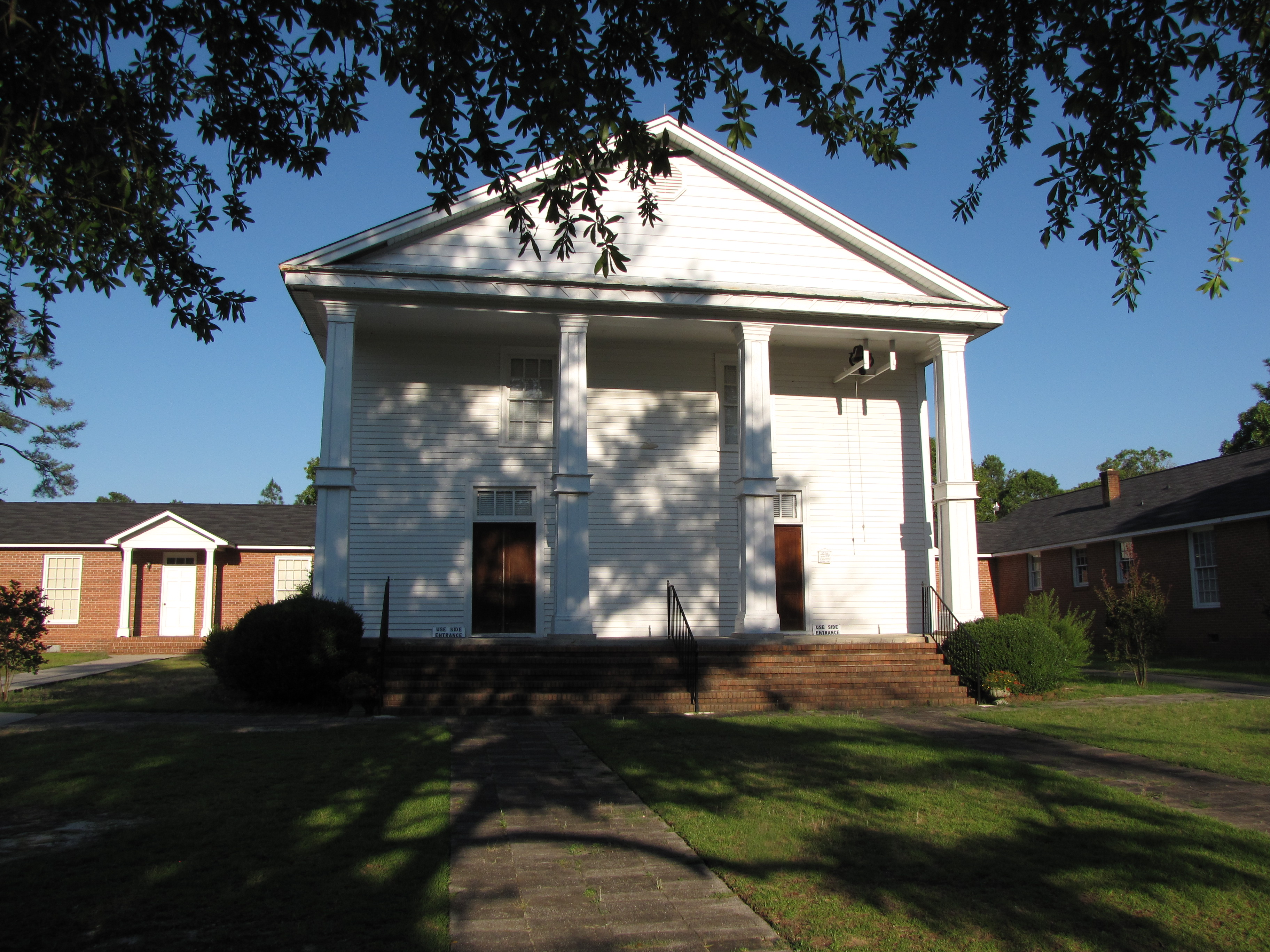 Cape Fear Baptist Church is on Butler Nursery Road in rural Cumberland County, North Carolina. The church was established in 1756 as Particular Baptist Church. The current sanctuary was constructed in 1859. It was entered into the National Register of Historic Places on October 13, 1983.